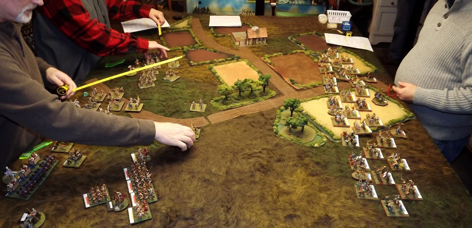 A miniature wargame. The players are re-enacting the Battle of Thebes, using a homebrew ruleset called Hannibal at the Gates.